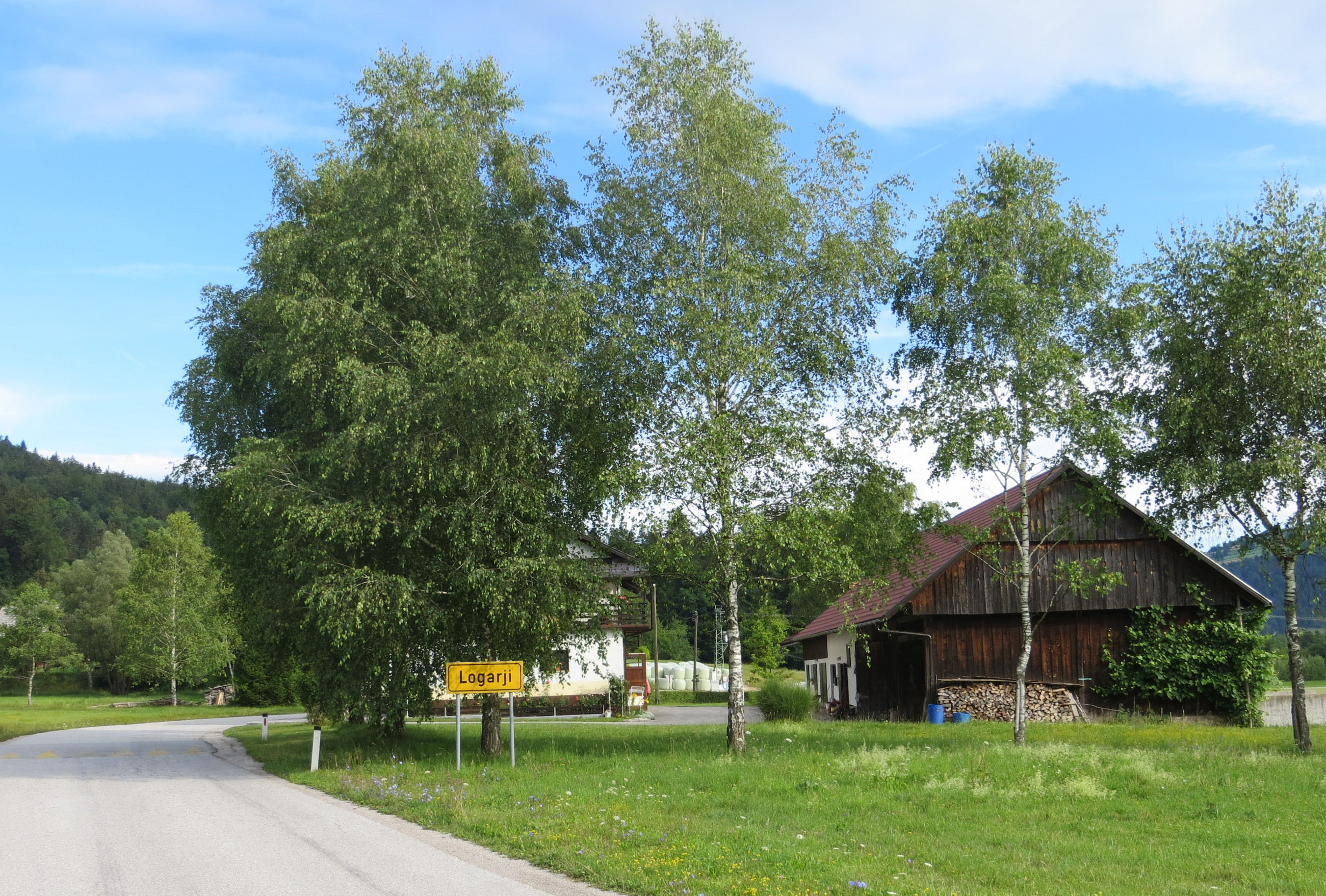 Logarji, Municipality of Velike Lašče, Slovenia